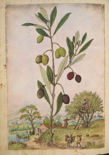 Gherardo Cibo, Herbal, BL MS. Add. 22332 f 181v Olea europaea